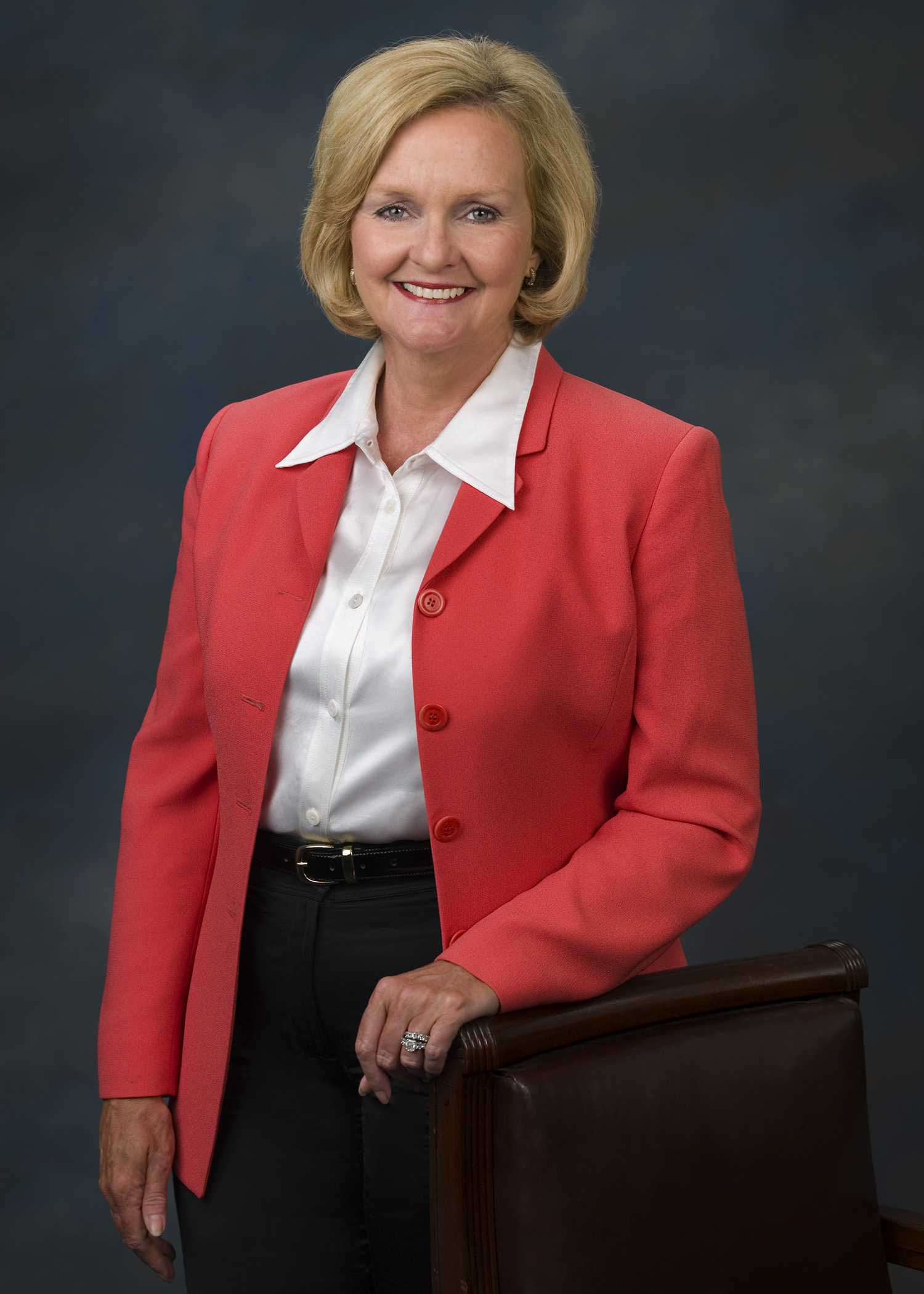 Claire McCaskill, member of the United States Senate from Missouri since 2007.